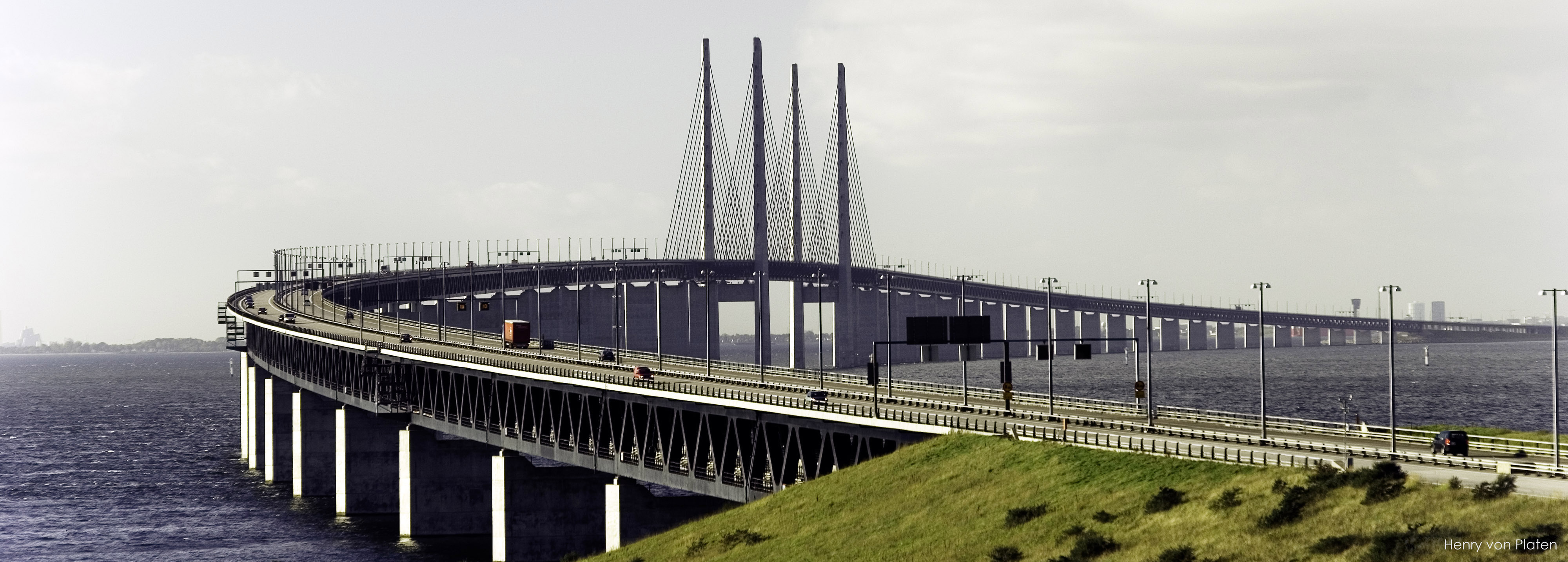 Oresund Bridge